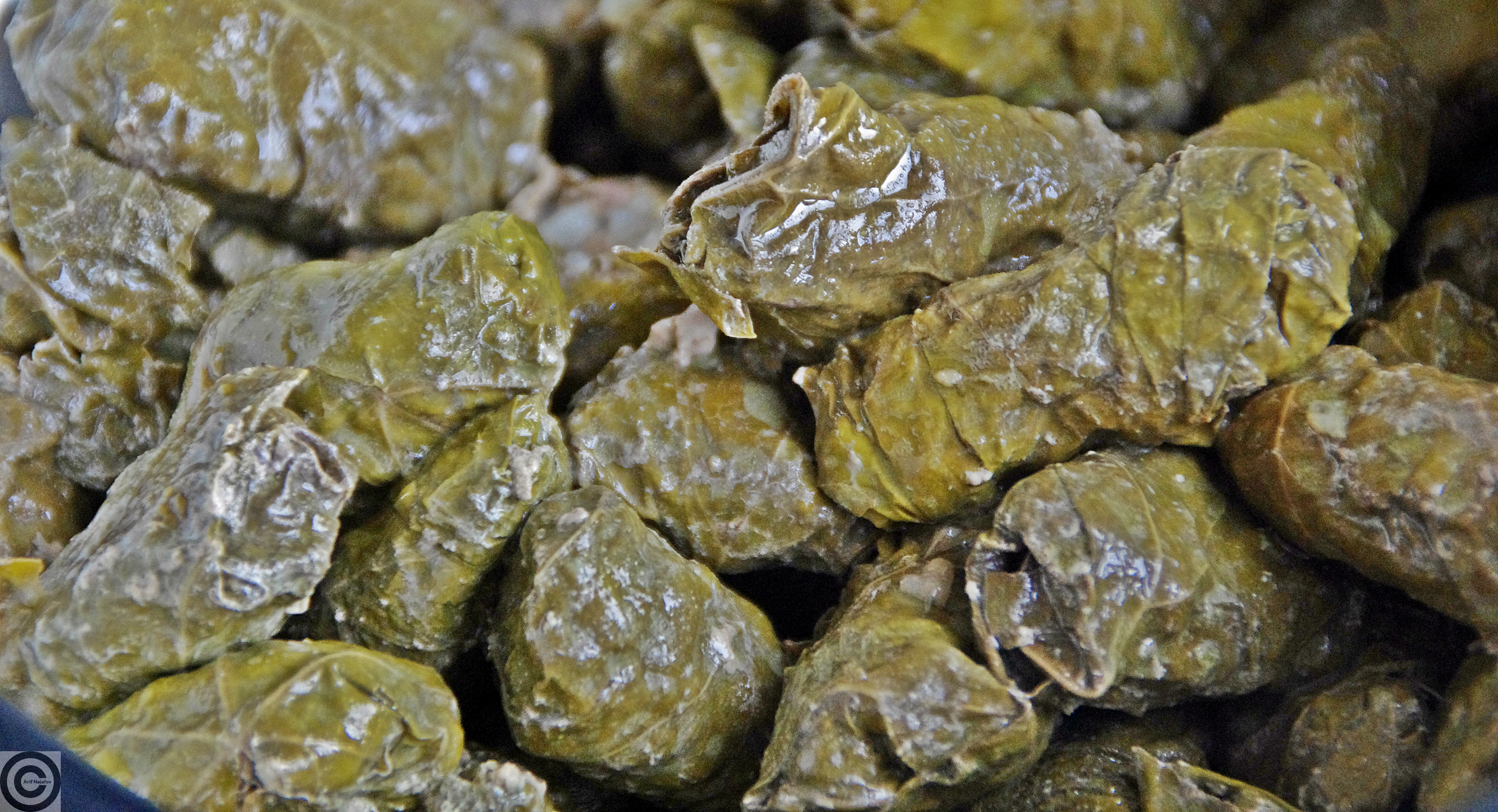 Azerbaijani traditional national dish of the yaprag dolması